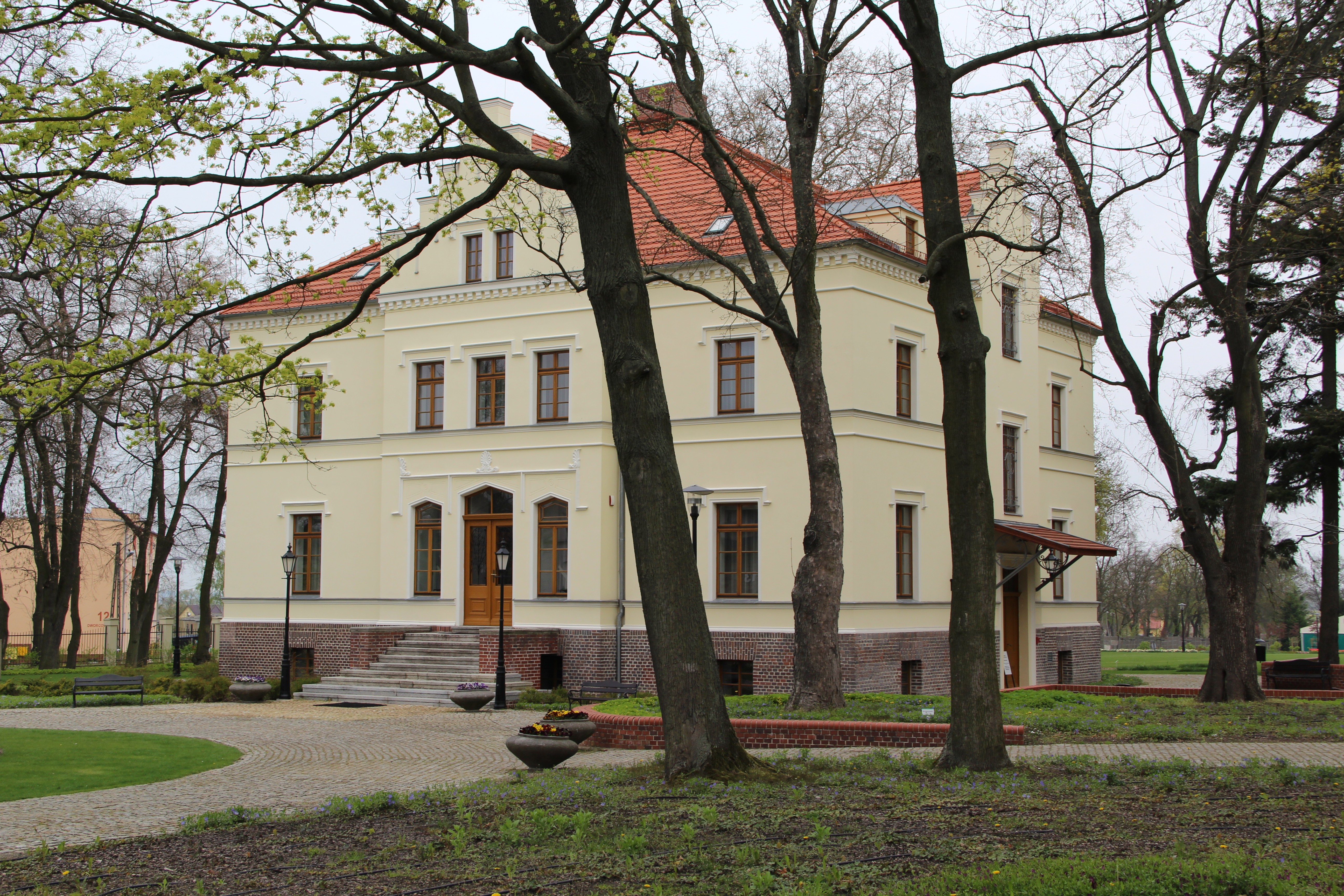 National Museum of Agriculture in Szreniawa